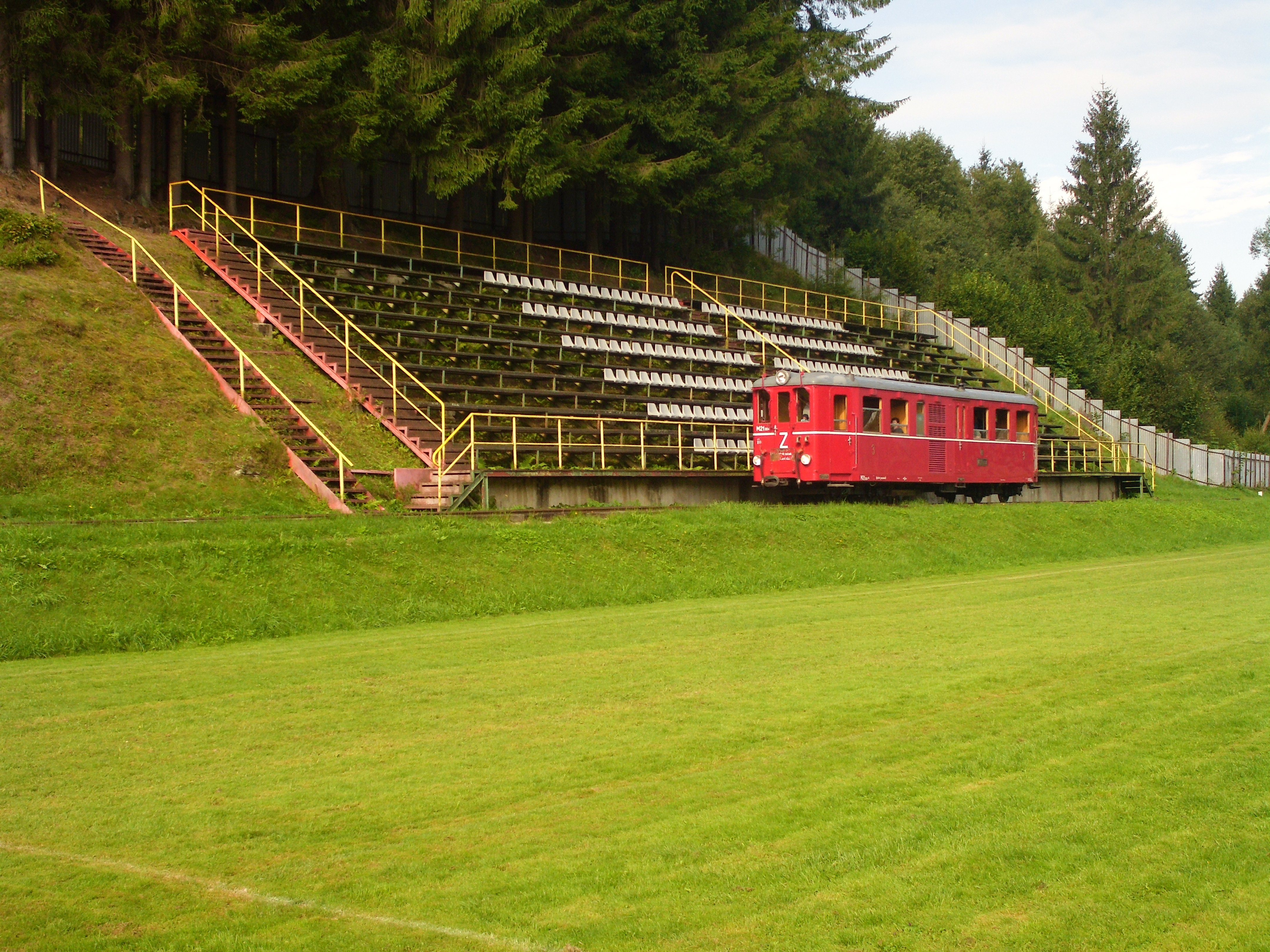 A narrow-gauge diesel railcar of Čierny Hron Railway passing through a soccer (football) stadium in Dobroč, a part of Čierny Balog municipality.